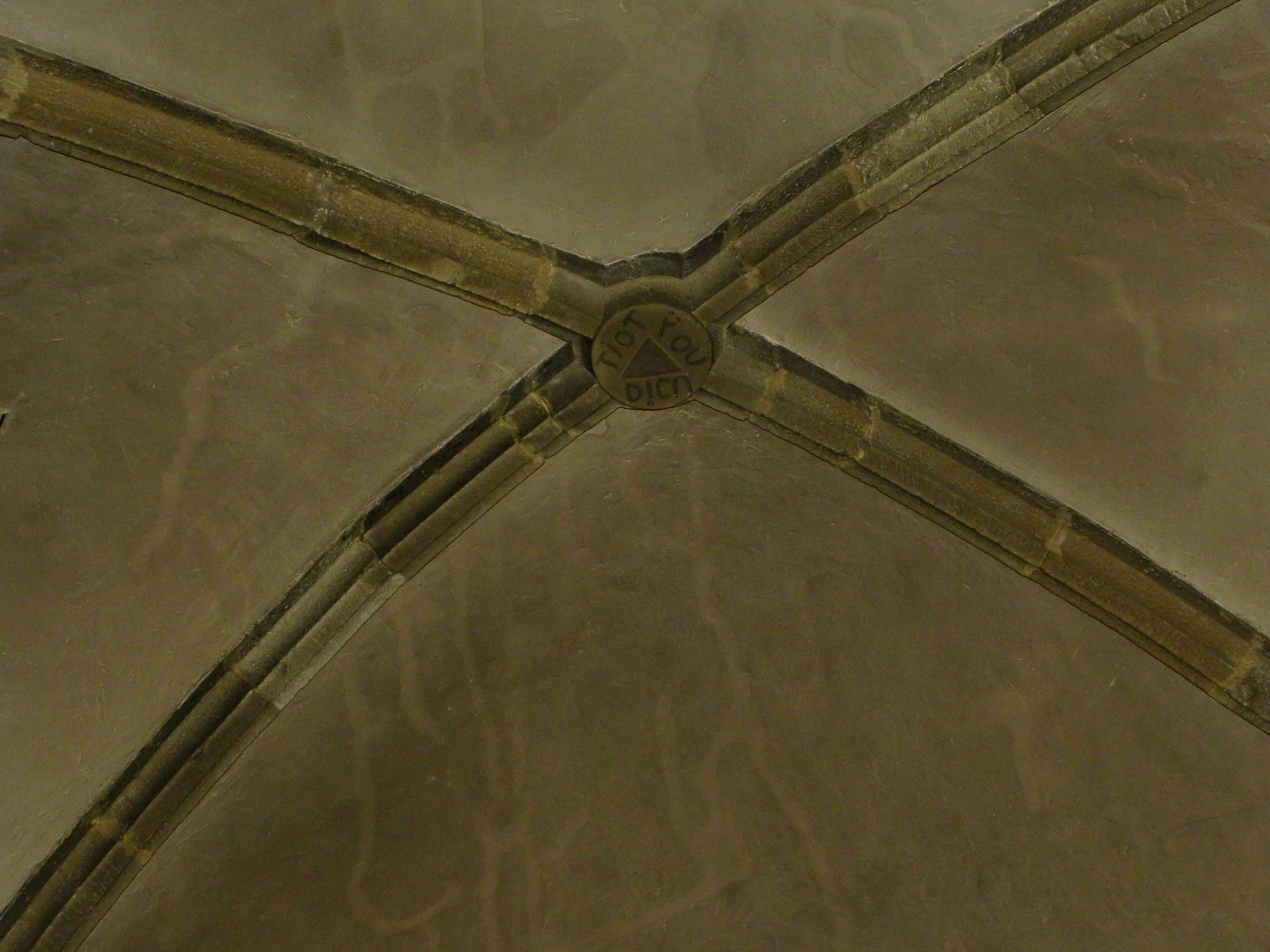 Clé de voûte de la nef